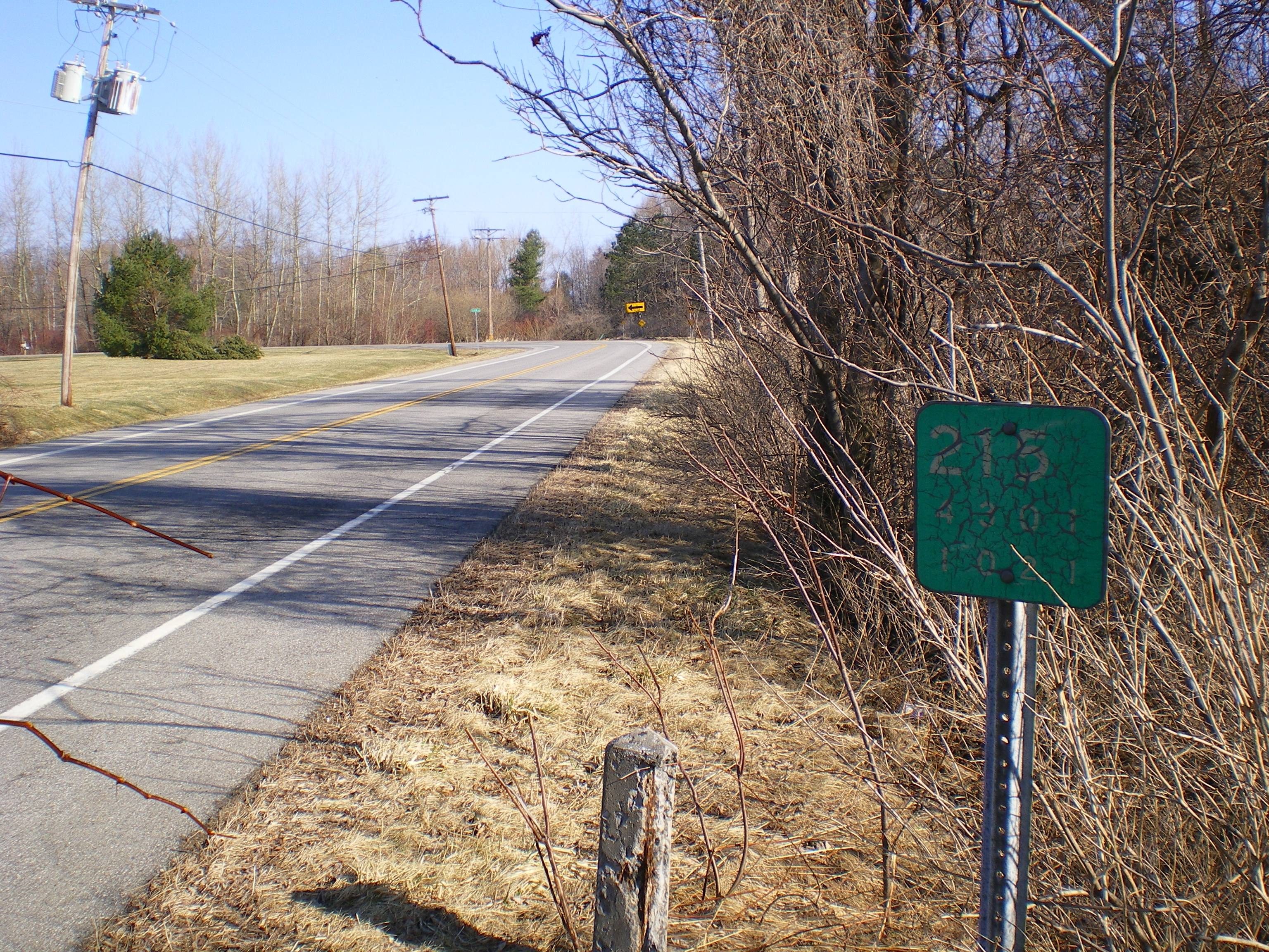 An old reference marker on Redman Road in Hamlin, just south of where it turns west to become Cook Road. This highway was New York State Route 215 from the 1940s to the 1970s, as reflected by the marker. The road is now maintained by Monroe County.